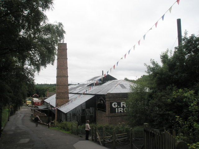 Ironworks chimney at Blist Hill Open Air Museum